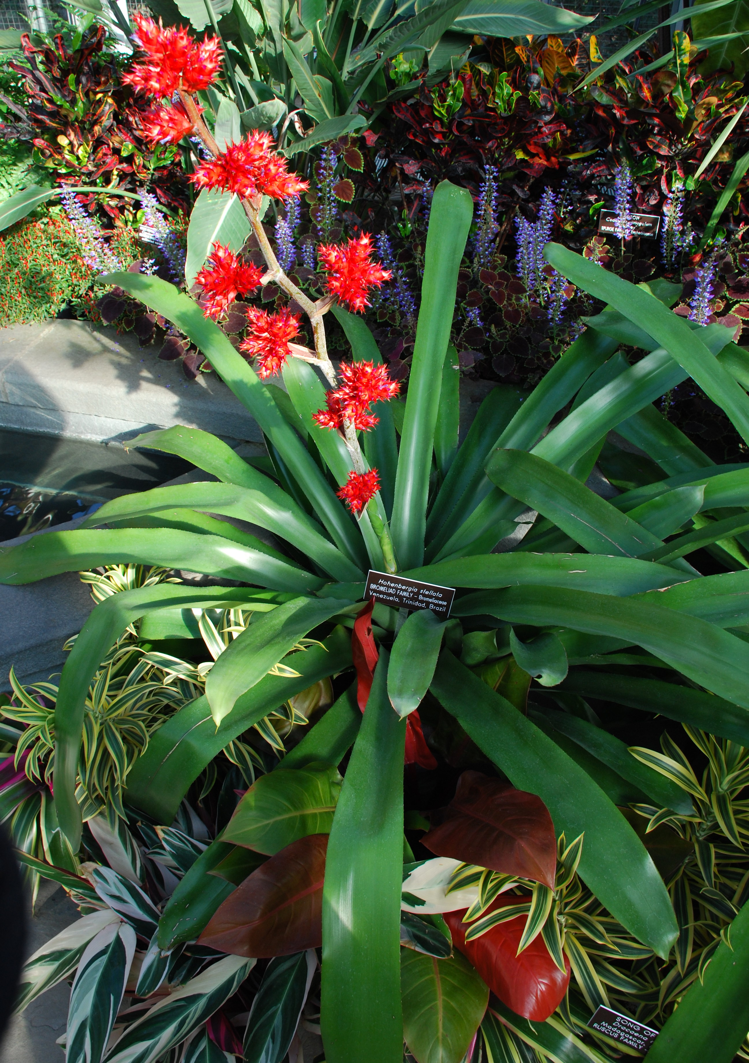 Hohenbergia stellata plant found in the United States Botanical Garden